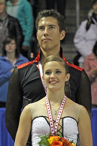 Paige Lawrence / Rudi Swiegers at the 2010 Skate Canada International